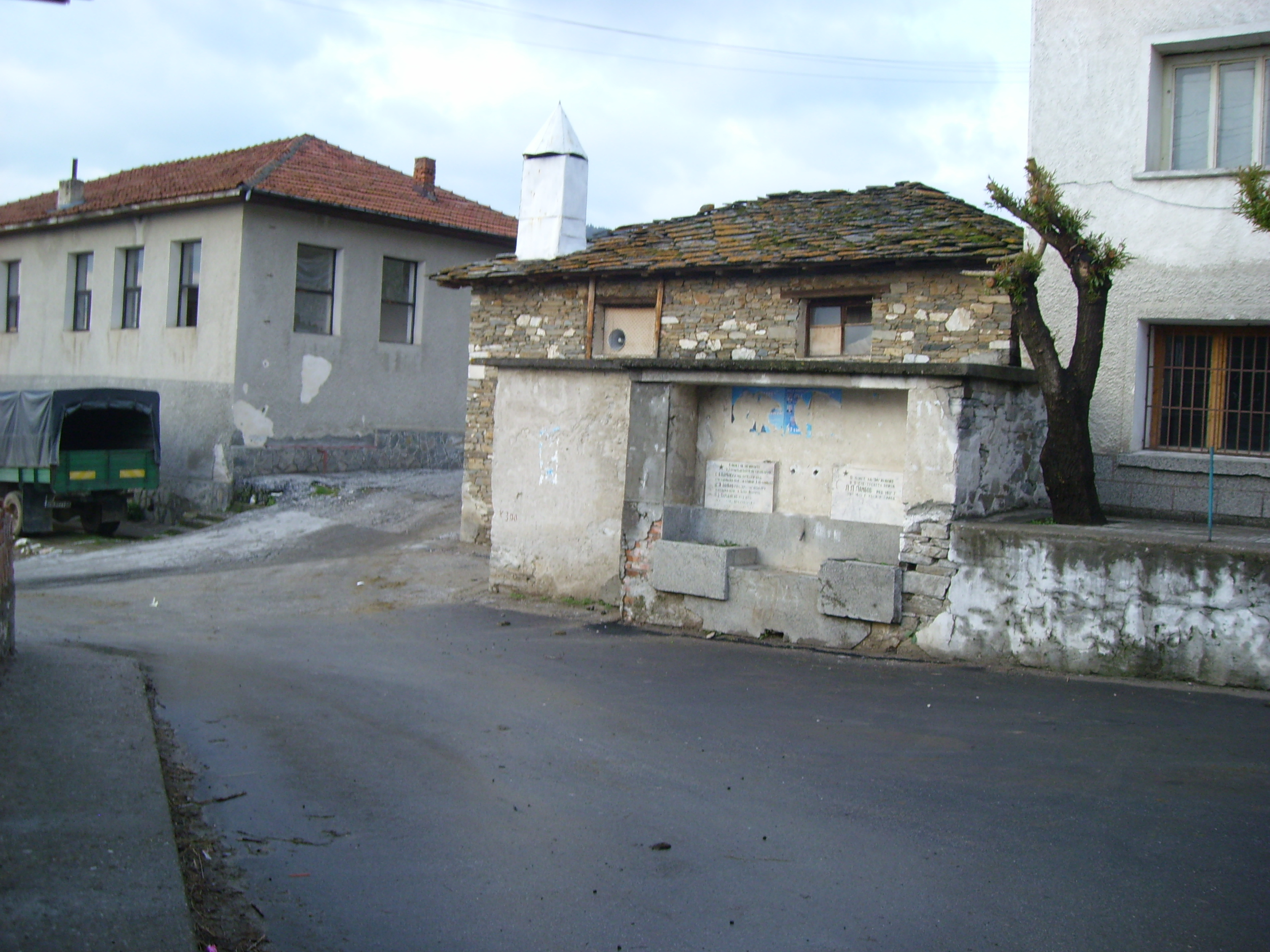 The village of Osikovo, Smolyan District.